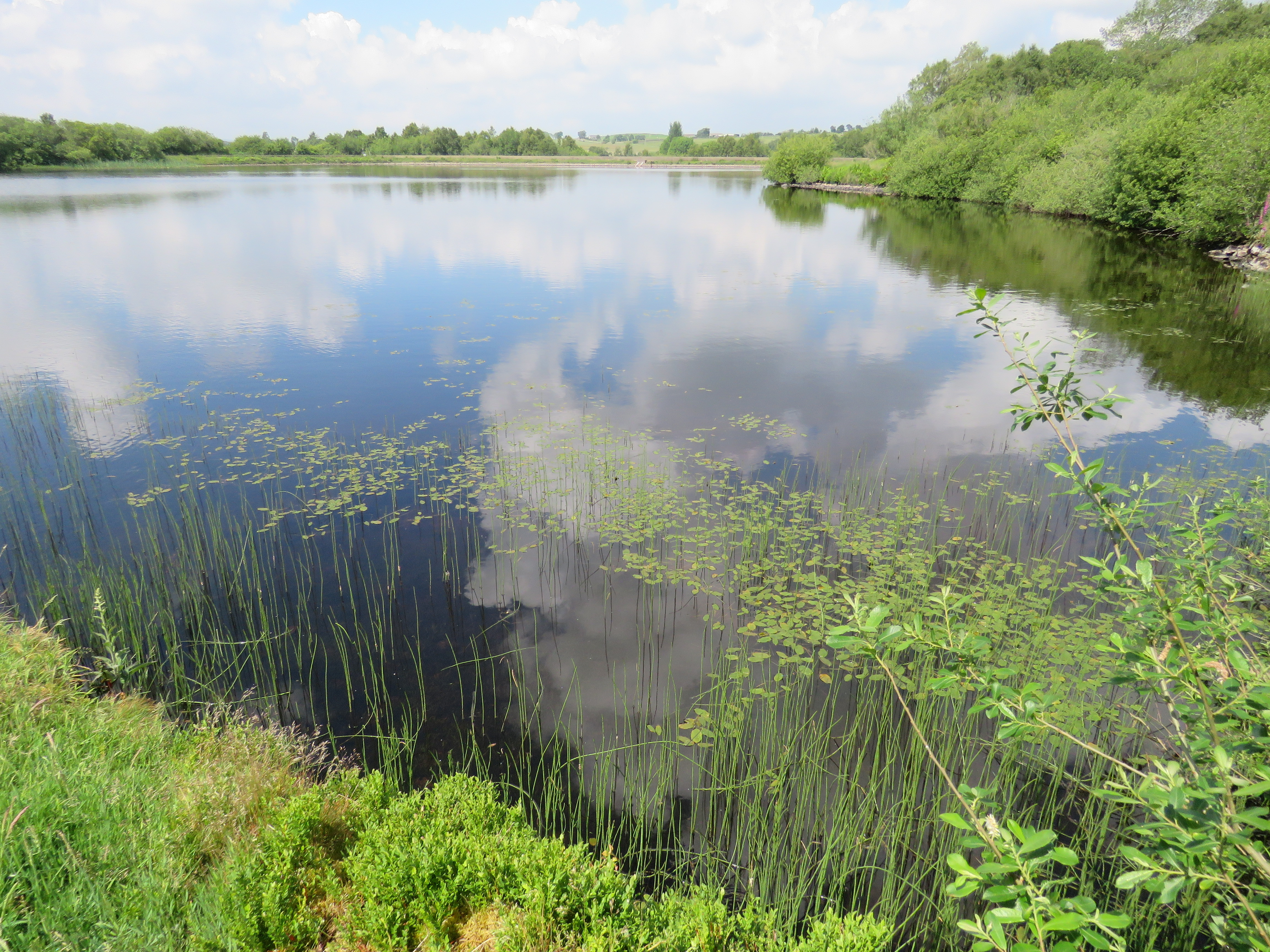 Nant y Ffrith Reservoir, Bwlchgwyn, North Wales